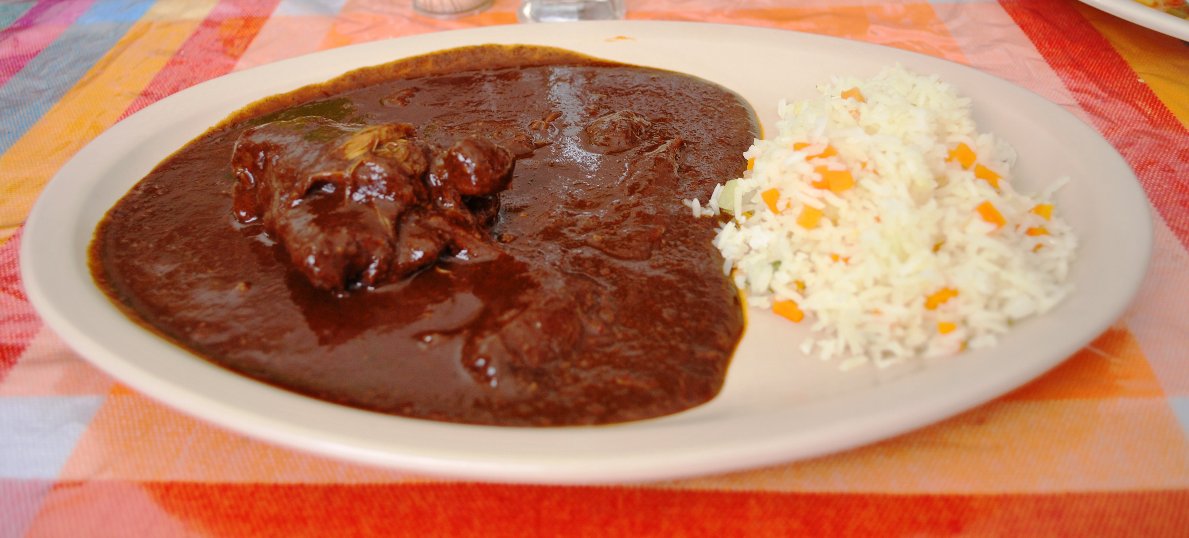 Chicken thigh in red mole sauce served with rice. At a restaurant in Taxco de Alarcón, Guerrero, Mexico